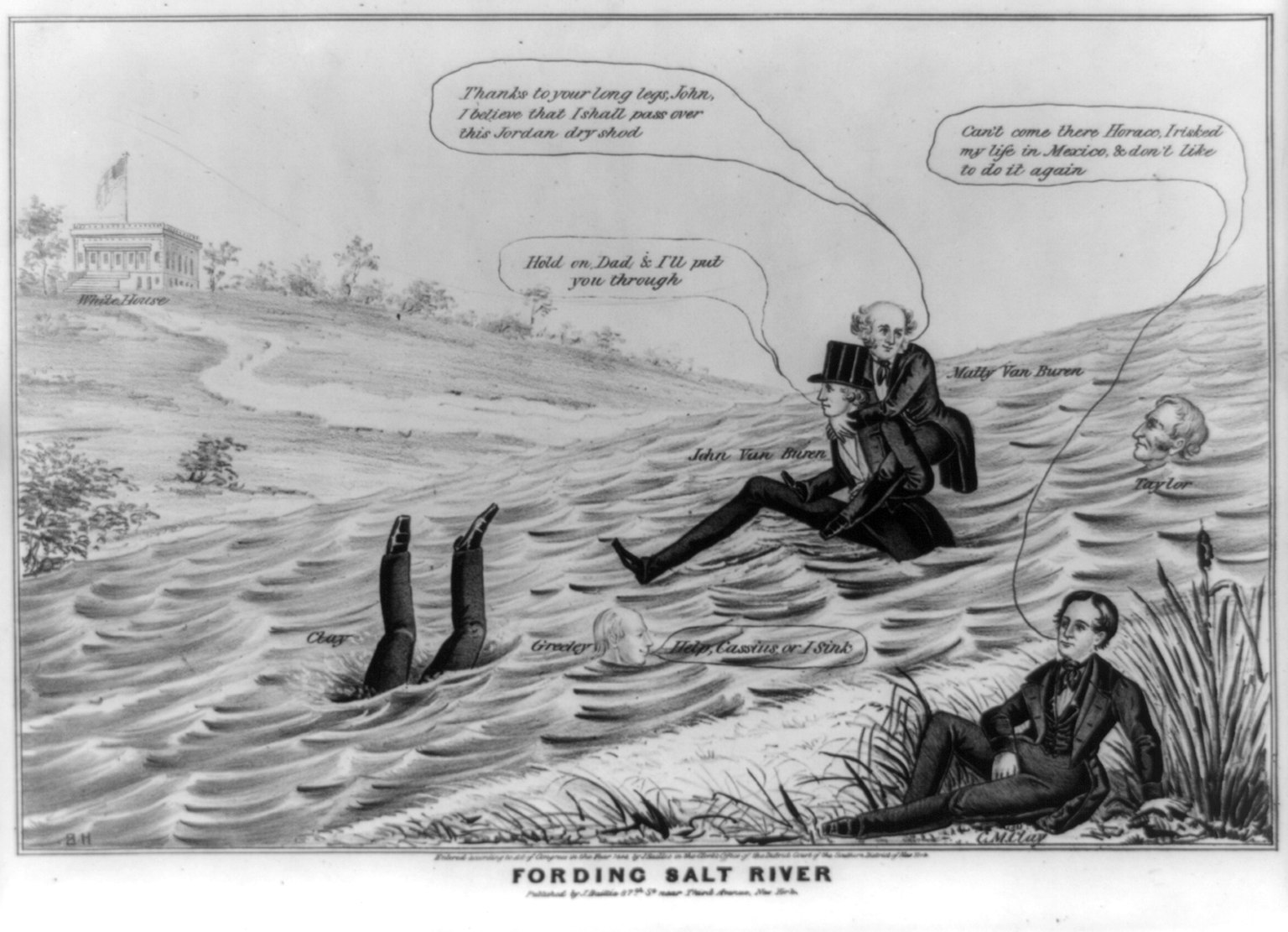 Title: Fording Salt River Abstract/medium: 1 print : lithograph on wove paper ; 29.1 x 39.1 cm. (image)